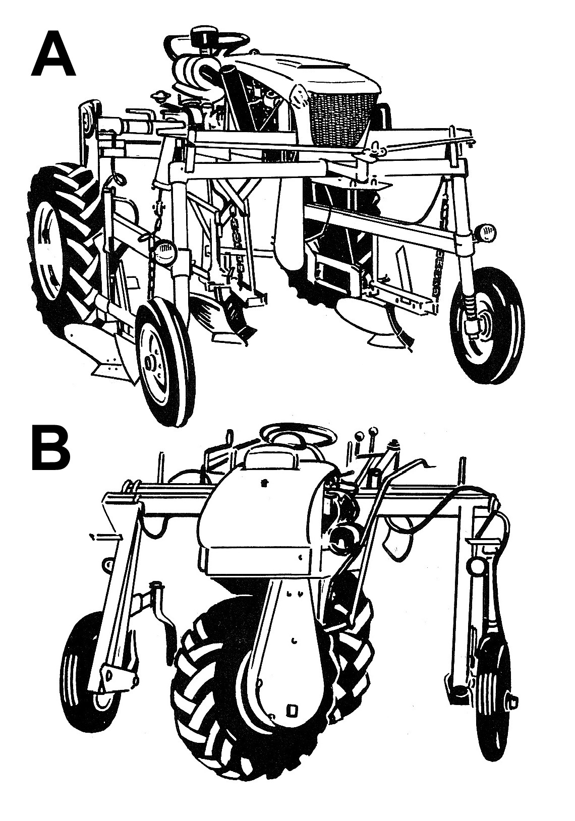 High clearance tractors (Ilustration from: Grbić, M. (2010): Proizvodnja sadnog materijala – Tehnologija proizvodnje ukrasnih sadnica. Univerzitet u Beogradu, Beograd ISBN 978-86-7299-174-1)